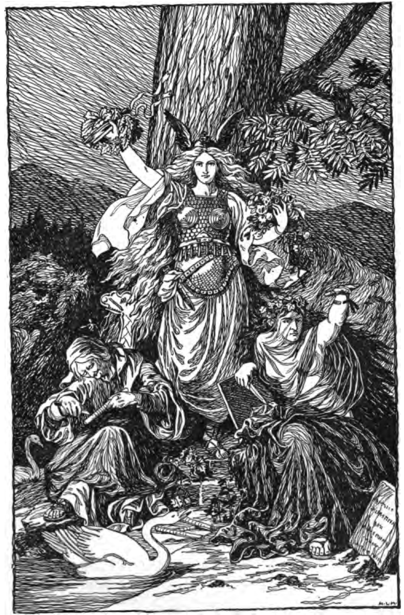 Captioned as "The Norns". Under the image a note says "After the painting by [Karl] Ehrenberg". The three Norns sit by the Urðarbrunnr.